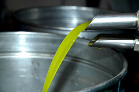 a photo of cloudy olive oil just after the decanting step and before storing